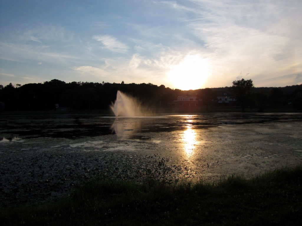 in the center of the village of Monroe Ny, at the millpond park...